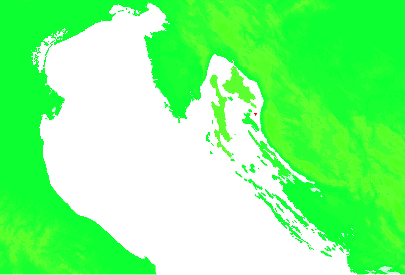 Island of Croatia Croatia - Goli.PNG